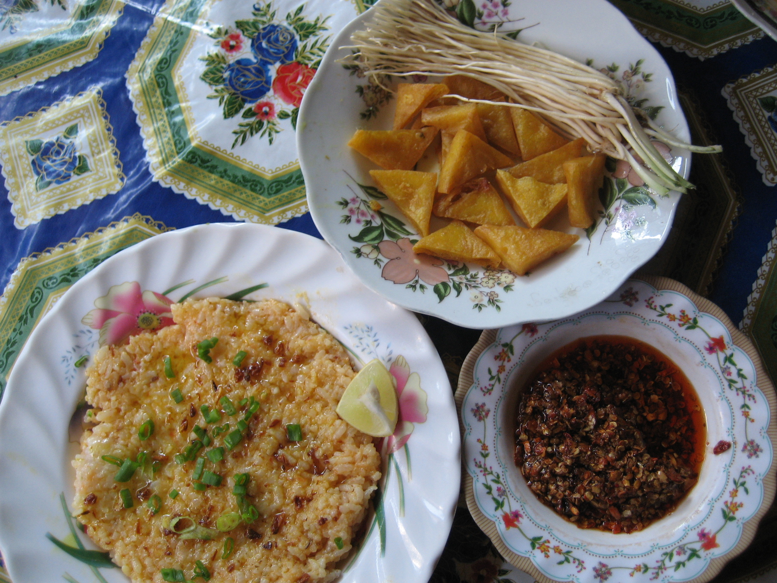 Htamin jin ('fermented' rice kneaded with fish and/or potato) with hnapyan jaw (twice fried Shan tofu) is a popular local dish at Inle Lake, Shan State, Myanmar. Ju myit (roots of Chinese chives) and chilli oil accompany the dish. Photo taken at a restaurant behind the Hpaung Daw U Pagoda - the shopkeeper said,"Foreigners don't eat this kind of food, and Burmese don't come in winter".